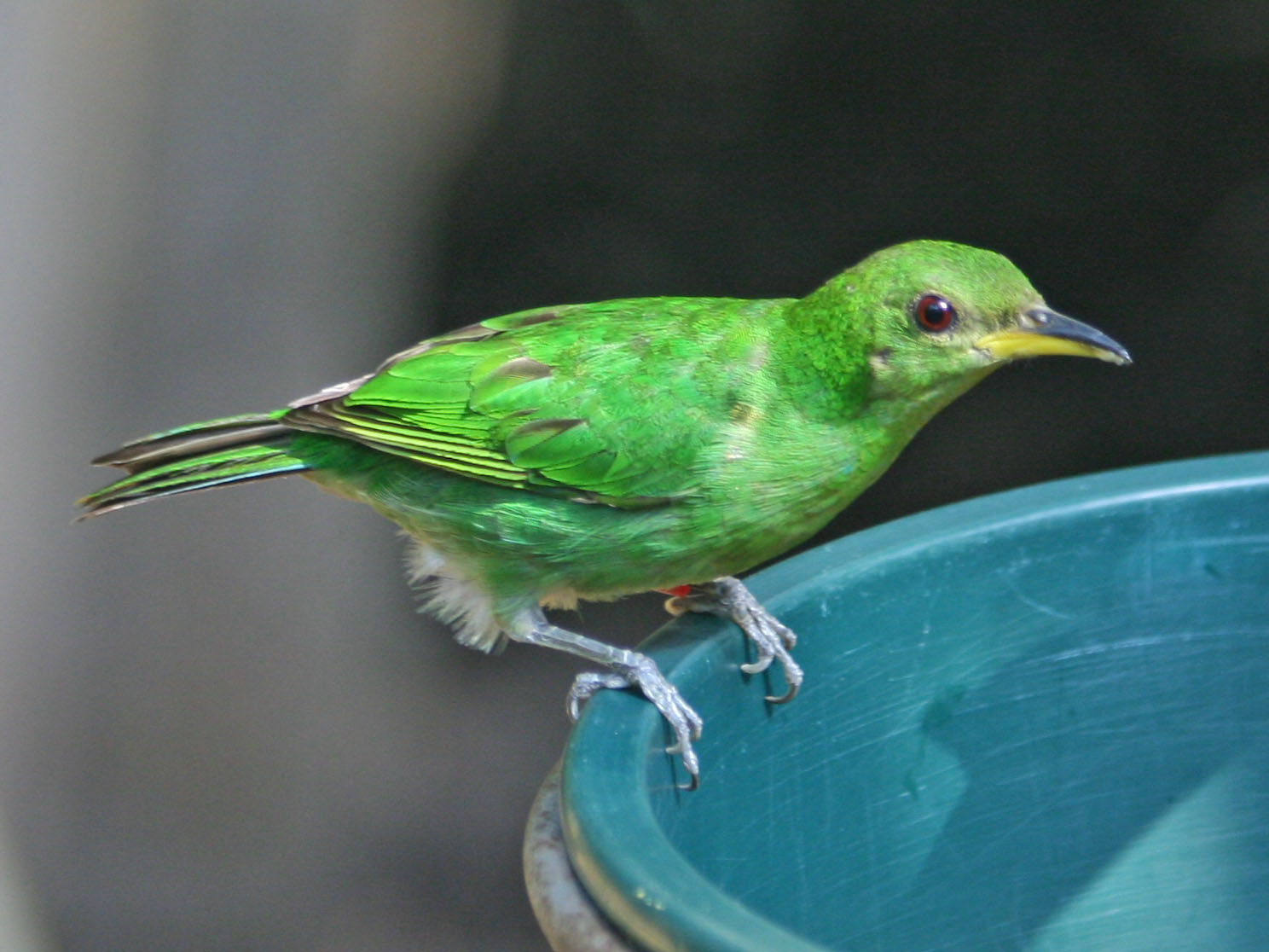 Female Green Honeycreeper (Chlorophanes spiza) - North Carolina Zoo, North Carolina